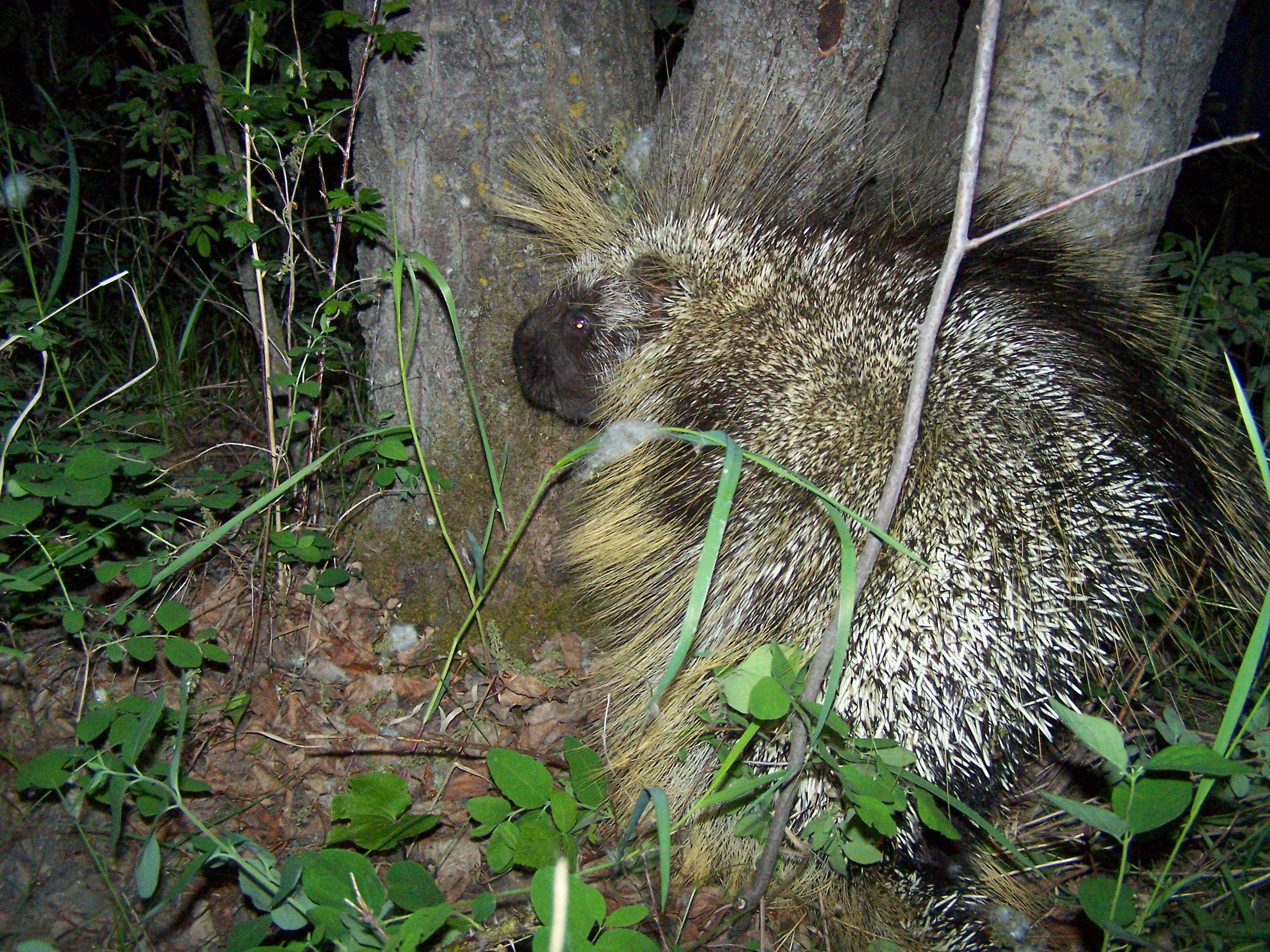 North American Porcupine (Erethizon dorsatum)